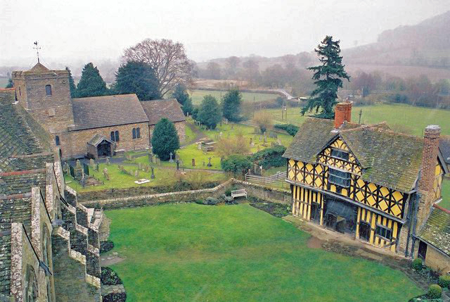 Stokesay: castle courtyard and parish church